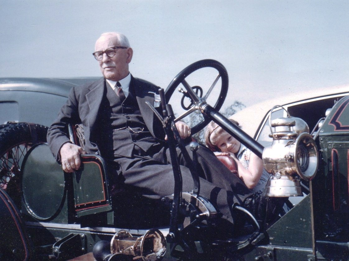 William Watson (motoring pioneer) seated on the Hutton-Napier car 'Little Dorrit' at Goodwood in 1958.